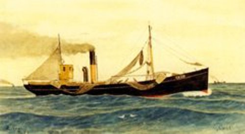 A painting by Icelandic marine biologist, dr. Bjarni Sæmundsson (1867–1940) of the steam trawler Coot. The trawler was built by W. Hamilton & Co. in Glasgow in 1892. It was purchased by a group of Icelanders from Silver City Steam Trawling Co. in Aberdeen in 1905. It displaced 157 tons, had a 225hp steam engine and was geared for bottom trawling. It had a very successful career in Iceland. Dr. Bjarni Sæmundsson did research on board this ship during the summer of 1906. In December 1908 the ship ran aground near its home harbor of Hafnarfjörður and was wrecked. All of the crew were saved.